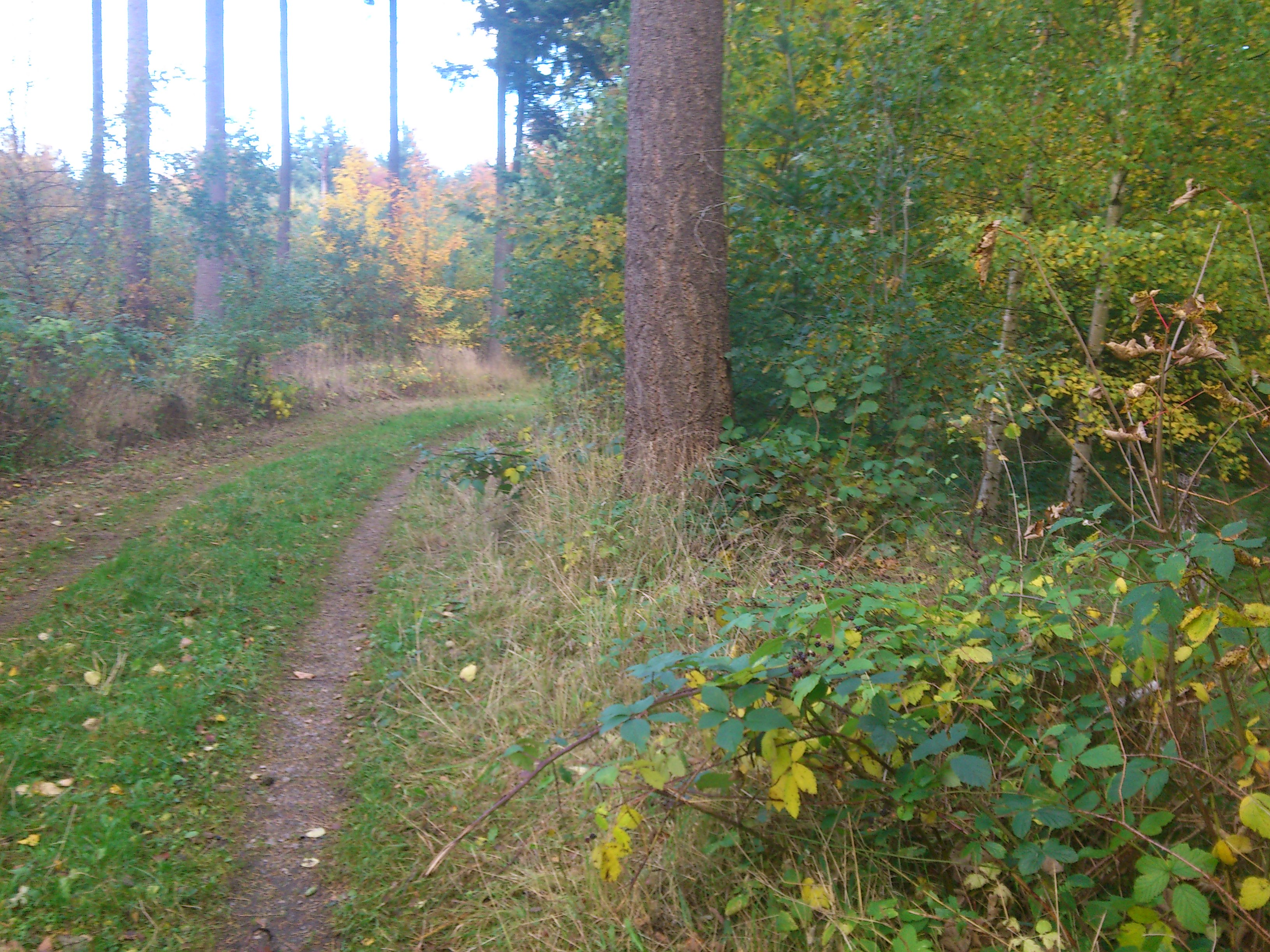 Walking the Skjoldunge (Scyldinga) path through the Bidstrup Forests on mid Zealand, Denmark